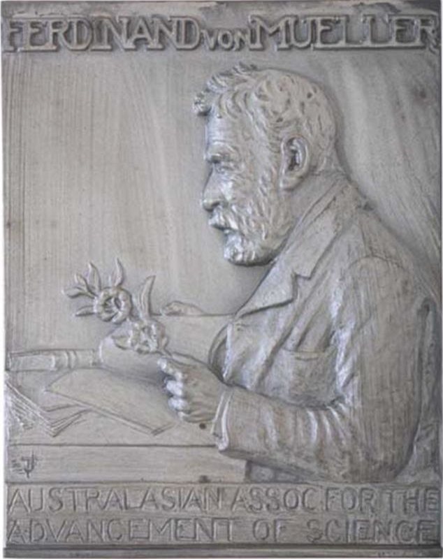 ANZAAS Mueller Medal (front)